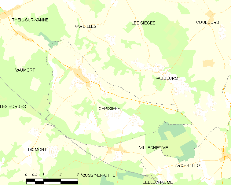 Map of French municipality Cerisiers